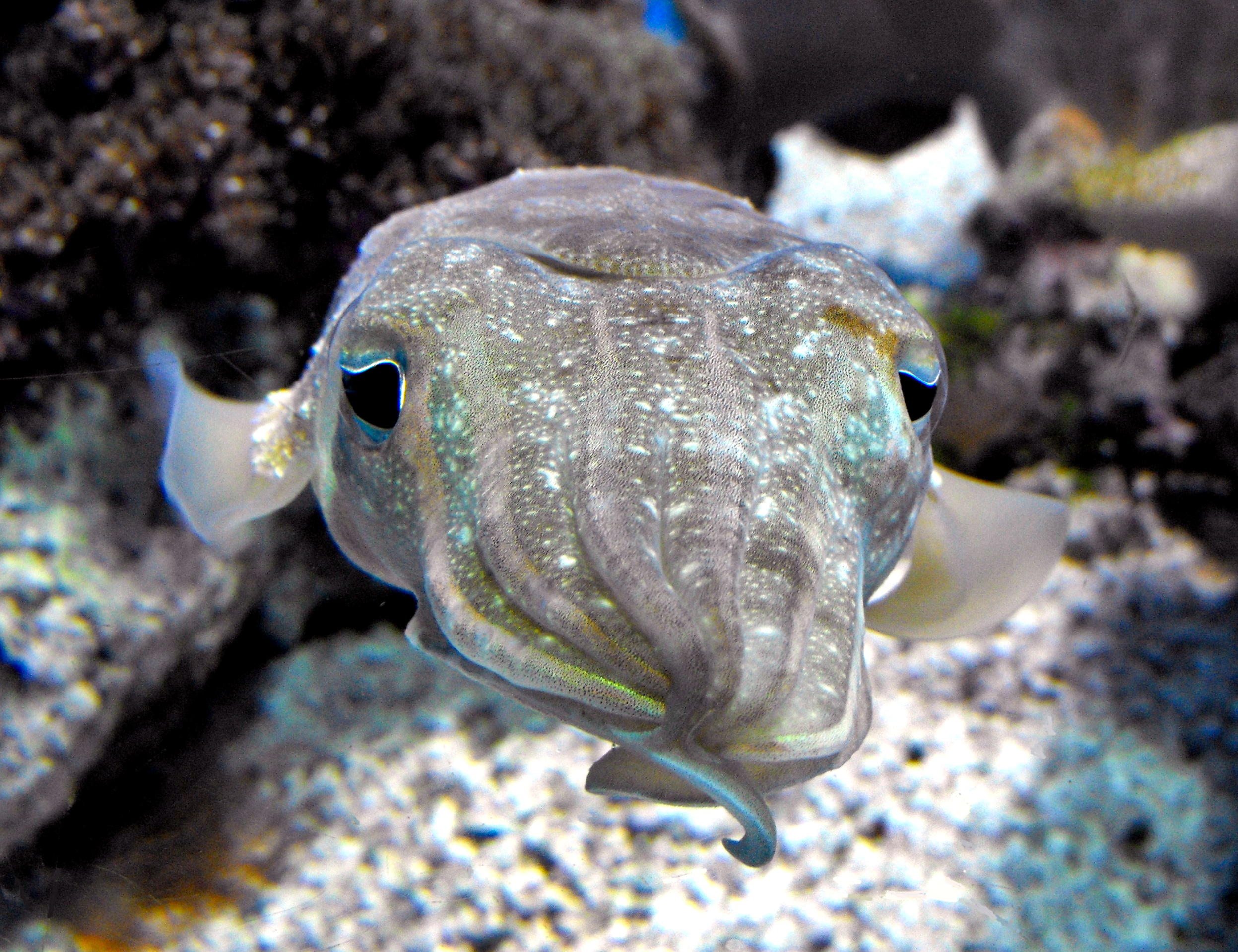 Sepia pharaonis at the Birch Aquarium in San Diego, California, USA.